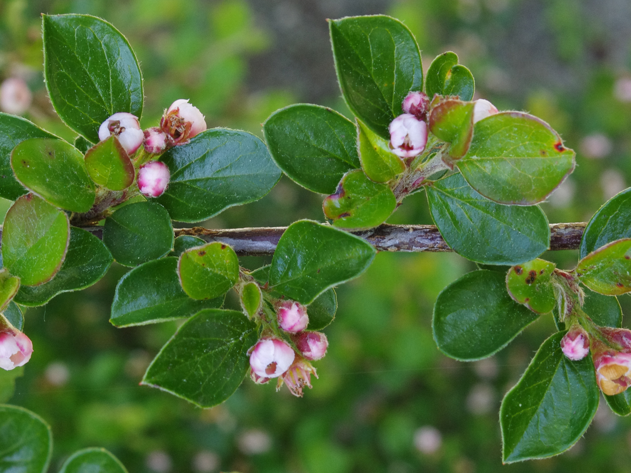 Cotoneaster racemiflorus at the ÖBG Bayreuth